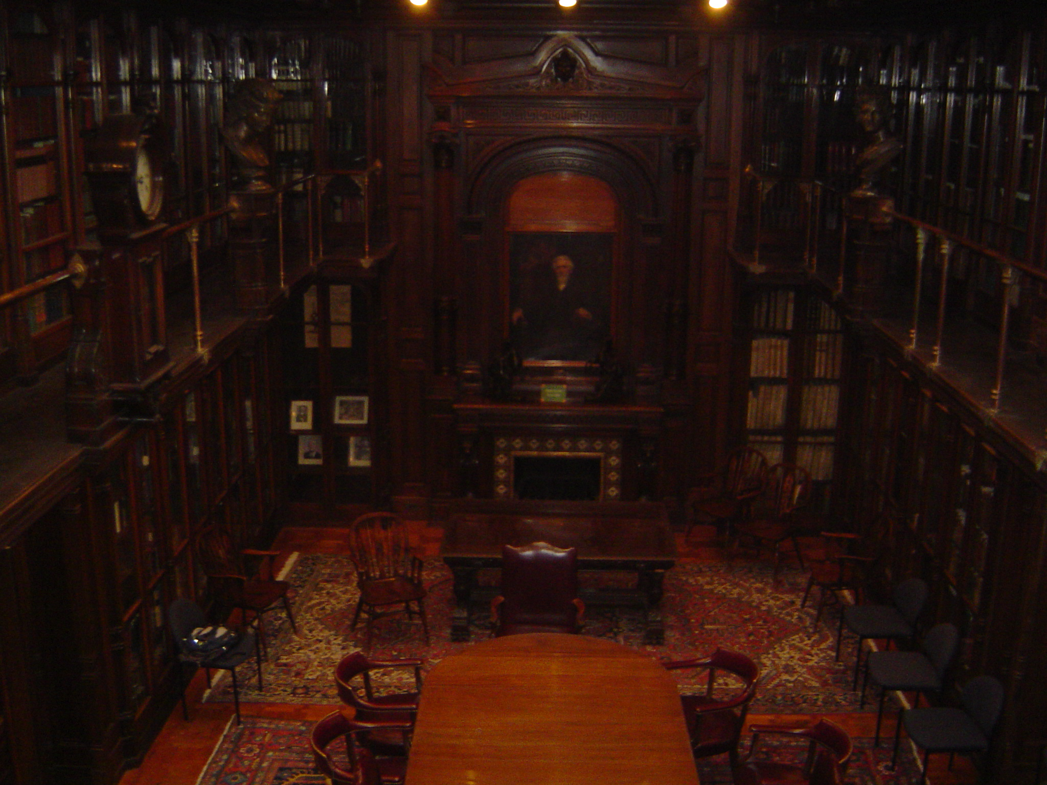 Henry Charles Lea Library (1881), attributed to Daniel Pabst. Removed from 2000 Walnut Street, Philadelphia in 1925. Now installed in Van Pelt Library, University of Pennsylvania.